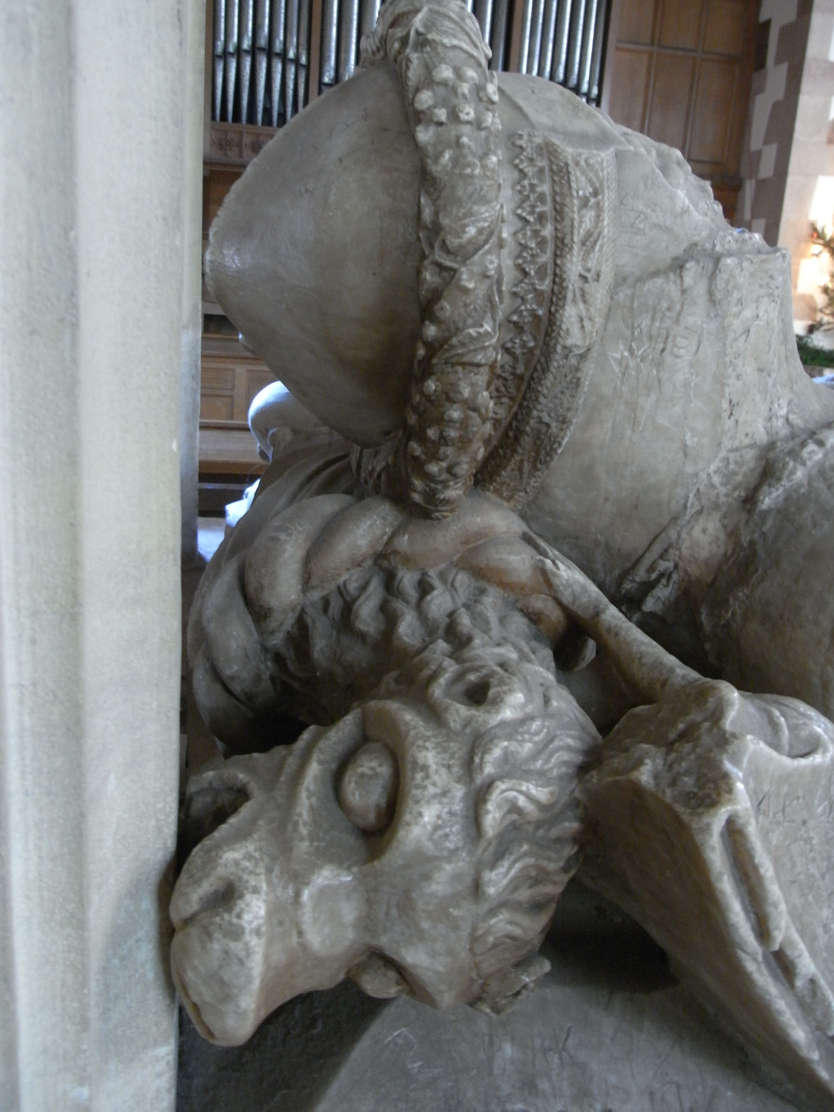 Crest on helmet of John Harington, 4th Baron Harington(d.1418), alabaster effigy, Porlock Church, Somerset: A lion's head erased or collared gules (source: Burke's General Armory 1884, p.459)